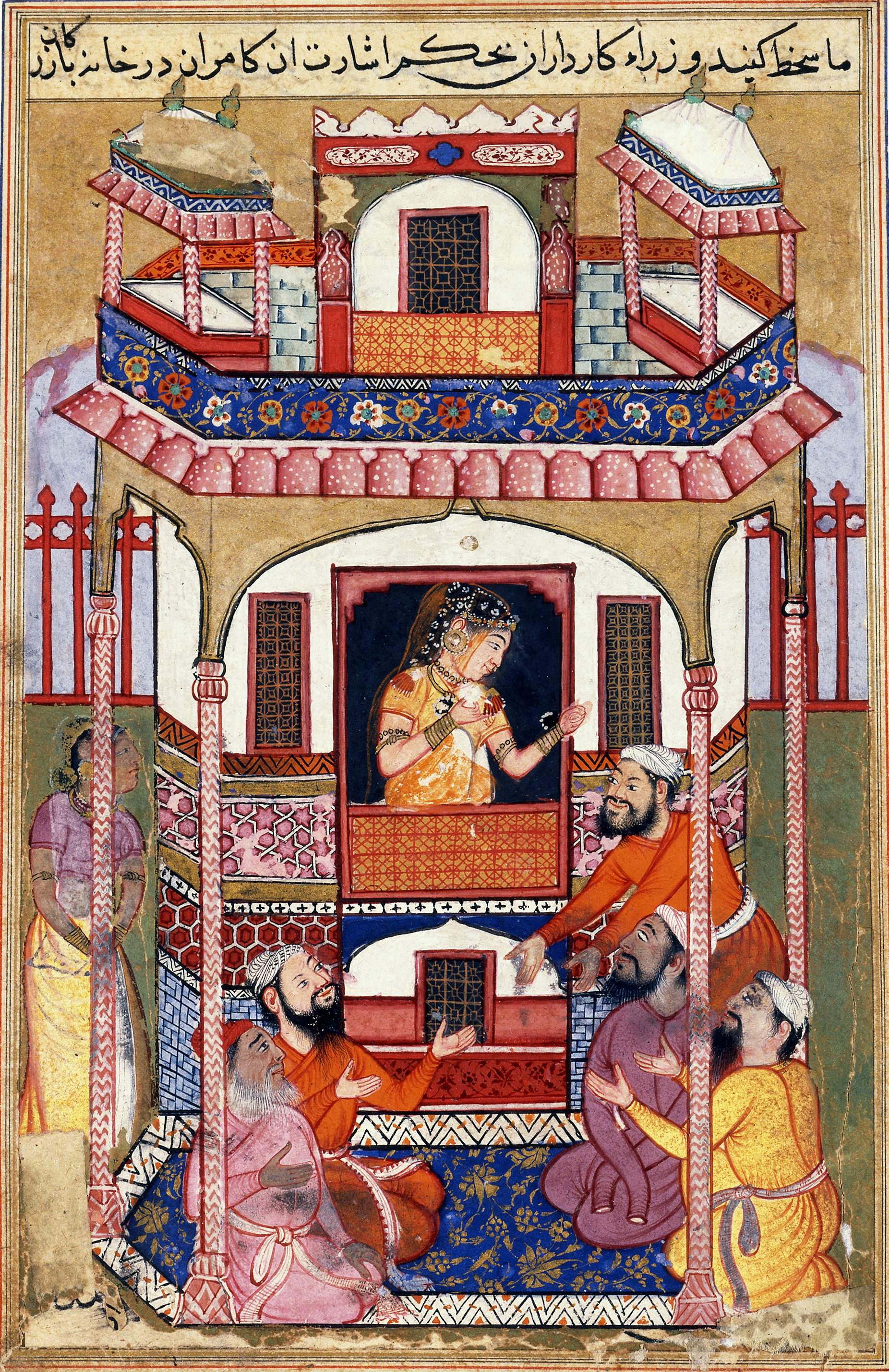 A Young Woman Visited by the Sultan’s Viziers, Cleveland-Tuti-nama, ca. 1570 The David Collection, Copenhagen